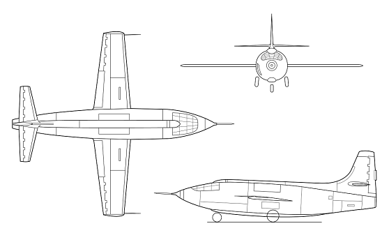 X-1/XS-1 3-View line art. Cropped from NASA official file (600x480 GIF image)